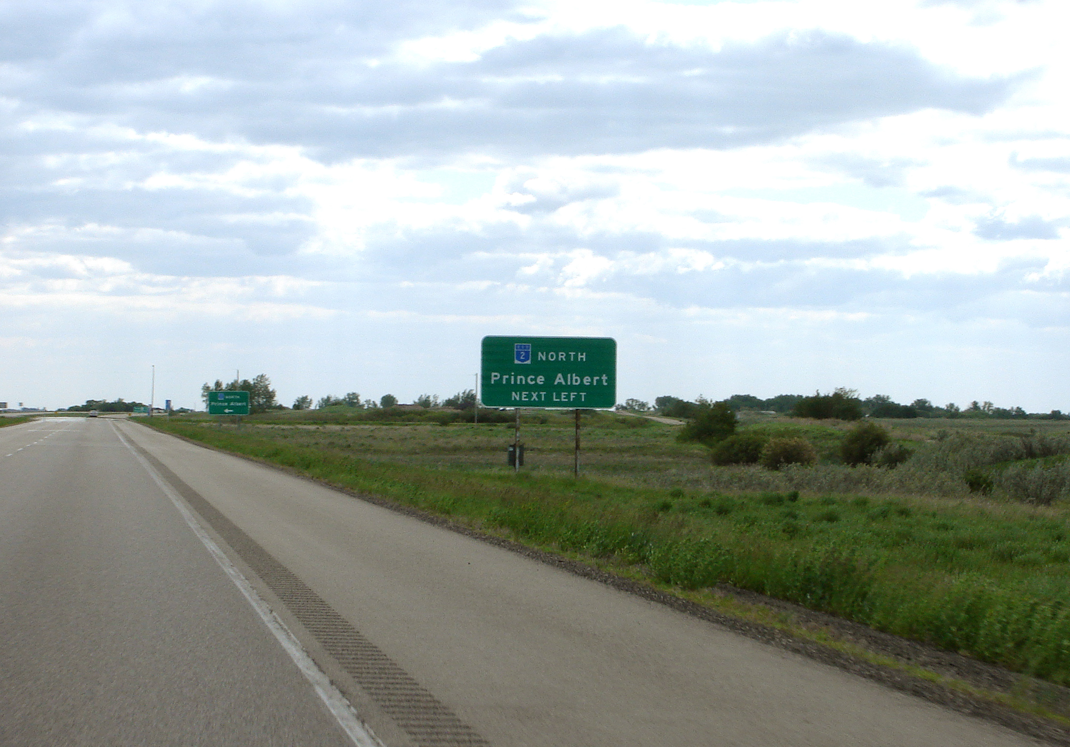 Saskatchewan Highway 2 North, Prince Albert Next Left intersection. Photo taken from Saskatchewan Highway 11, Louis Riel Trail travelling south from Saskatoon to Regina